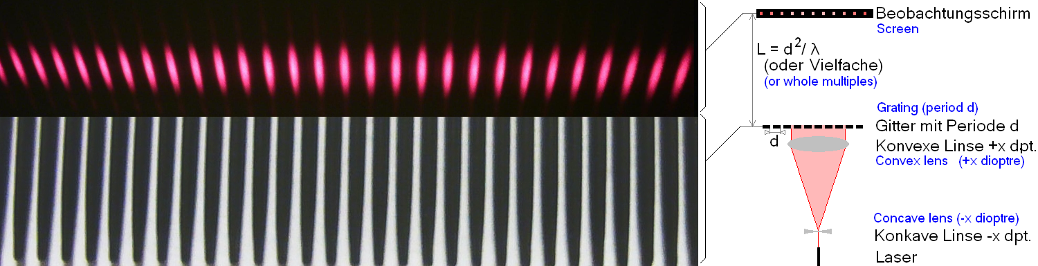 Near-field interference pattern generated by Talbot-Effect using a 666nm laser, a grating (comb) with 1mm period and a f=200mm cylinder lens. Possibility 1: As shown in drawing, L = 1.5mm, d = 1mm, f = +-200mm (+-5 dpt.) Possibility 2: Single concave lens f=-200mm, the comb is placed right between focal point of lens and the wall: focal point-3m-comb-3m-wall.